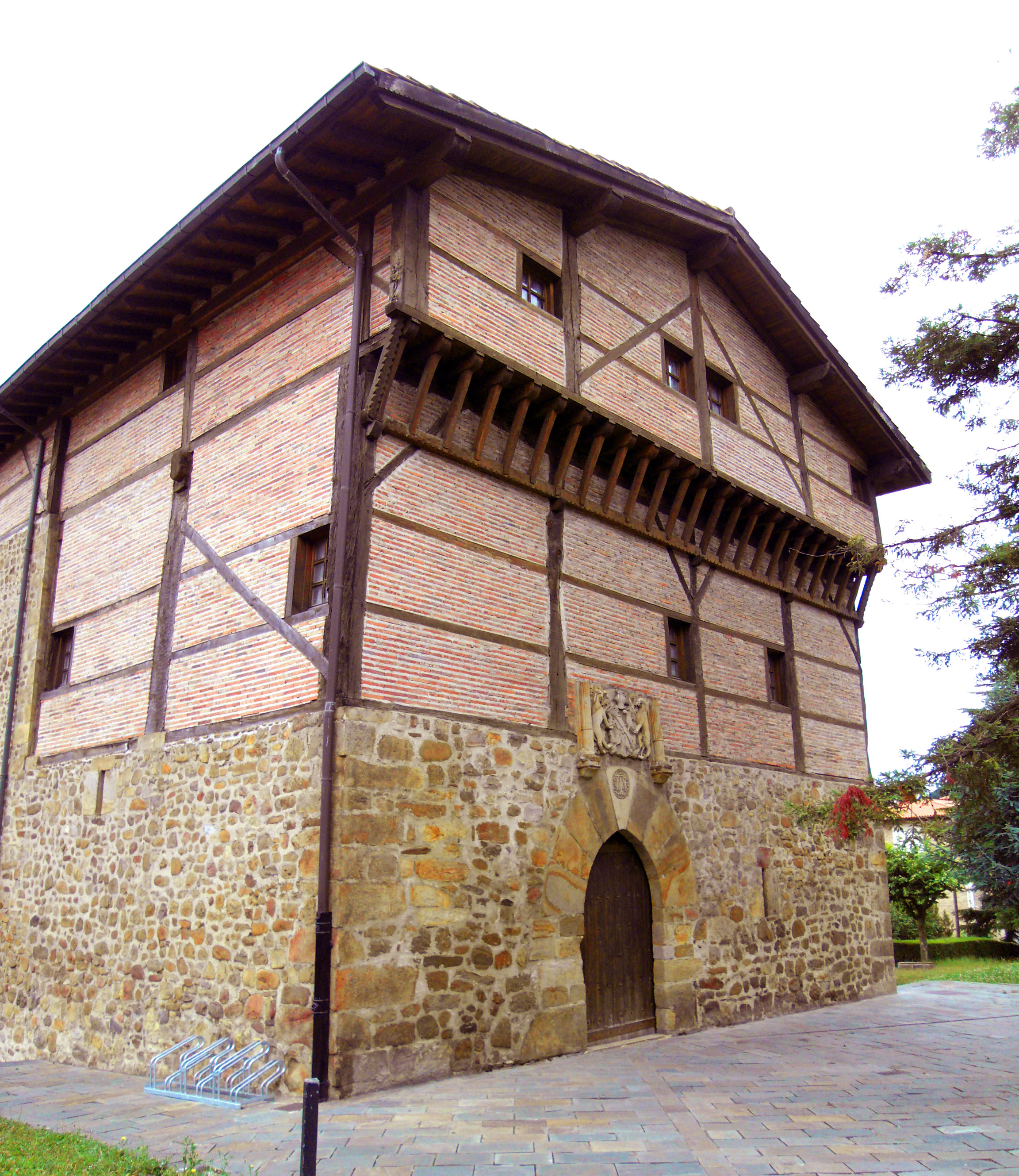 Migel Lopez Legazpi birthplace, Zumarraga (Guipuscoa, Basque Country)